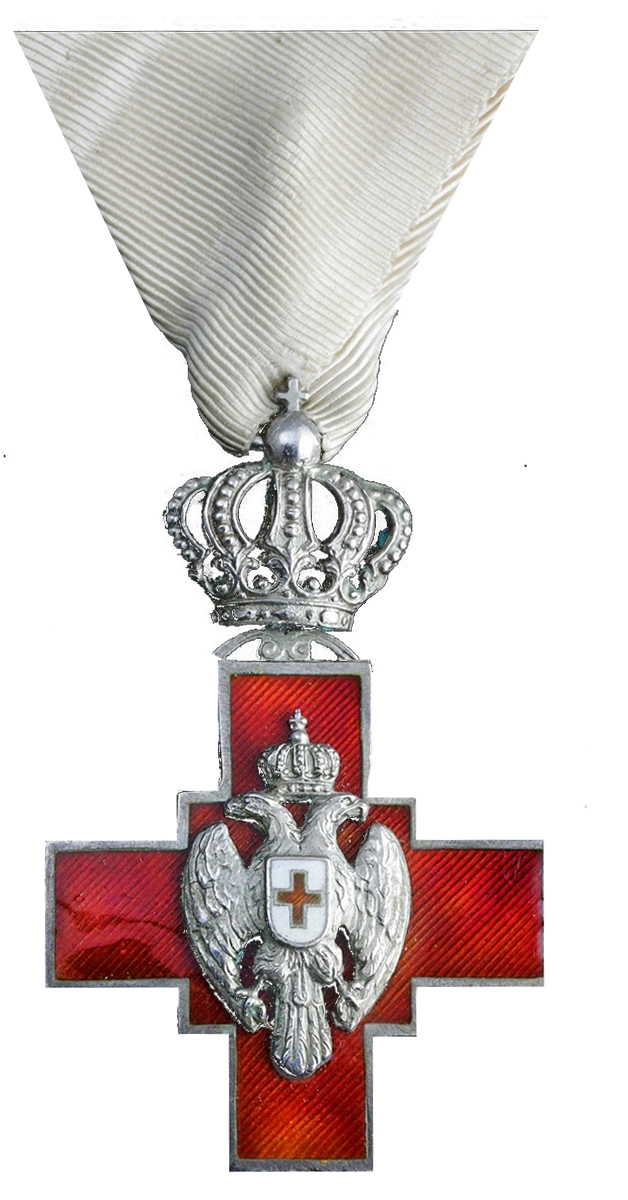 Cross of the Serbian Red Cross Society – Kingdom of Serbia (1882 – 1941)